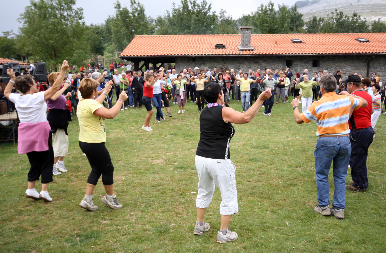 "Erromeria" in Ernio mountain.